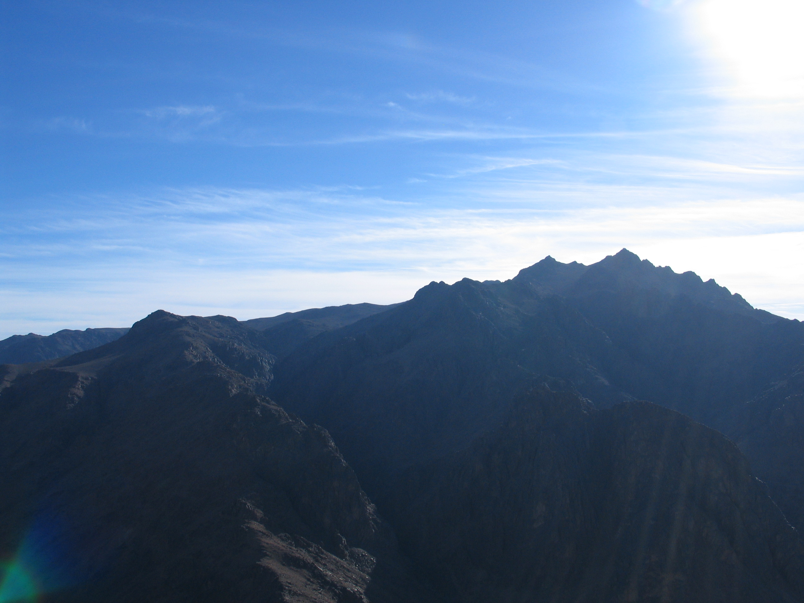 Mount of Saint Catherine, Sinai.